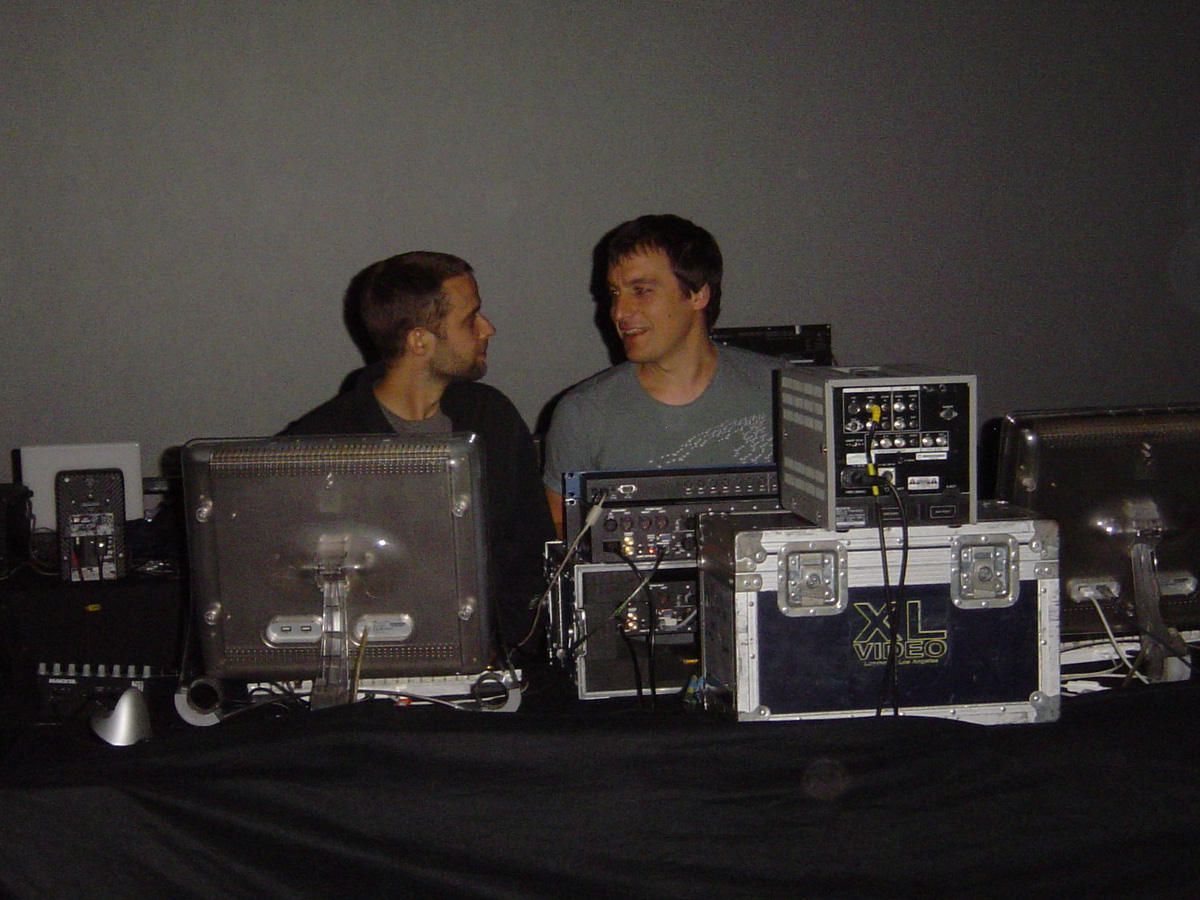 Plaid & Bob Jaroc (out of the picture) at the bfi London IMAX Cinema at Optronica Festival